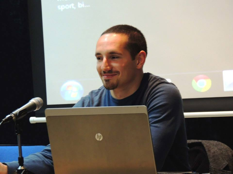 Darko Sarovic giving a lecture for the Bioethical Society of Serbia at a seminar on the topic Doping in Sports. He brought up psychological, sociological, ethical, and physiological aspects of doping, and pointed out some of the fallacies in the bureaucratic system of the WADA (World Anti-Doping Agency).